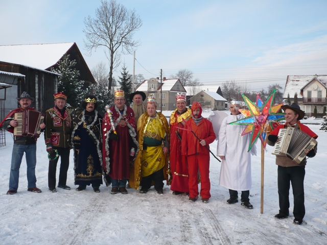 common singing of carols carol singers in Poland, (Christmas) carollers or carolers in Poland